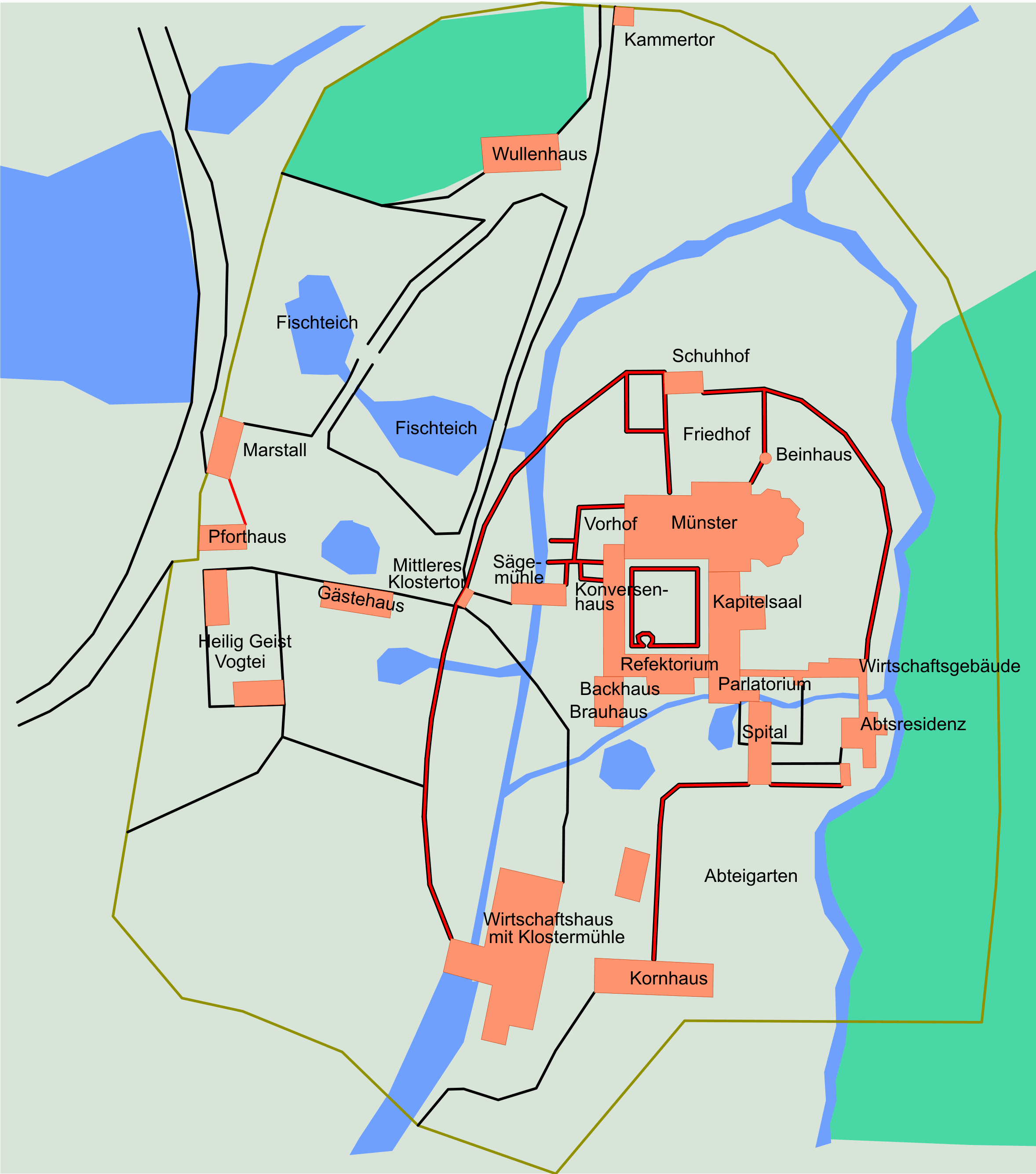 Karte des Klosters Doberan / Map of the monastry of Doberan